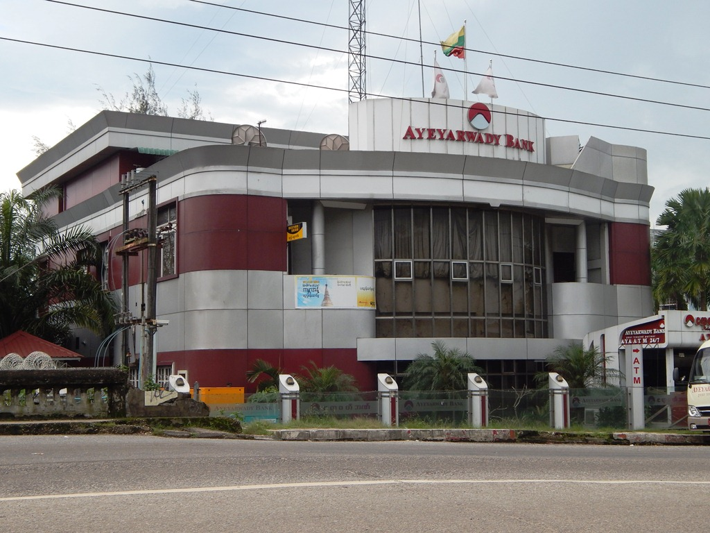 Ayeyarwady Bank, Yangon, Burma